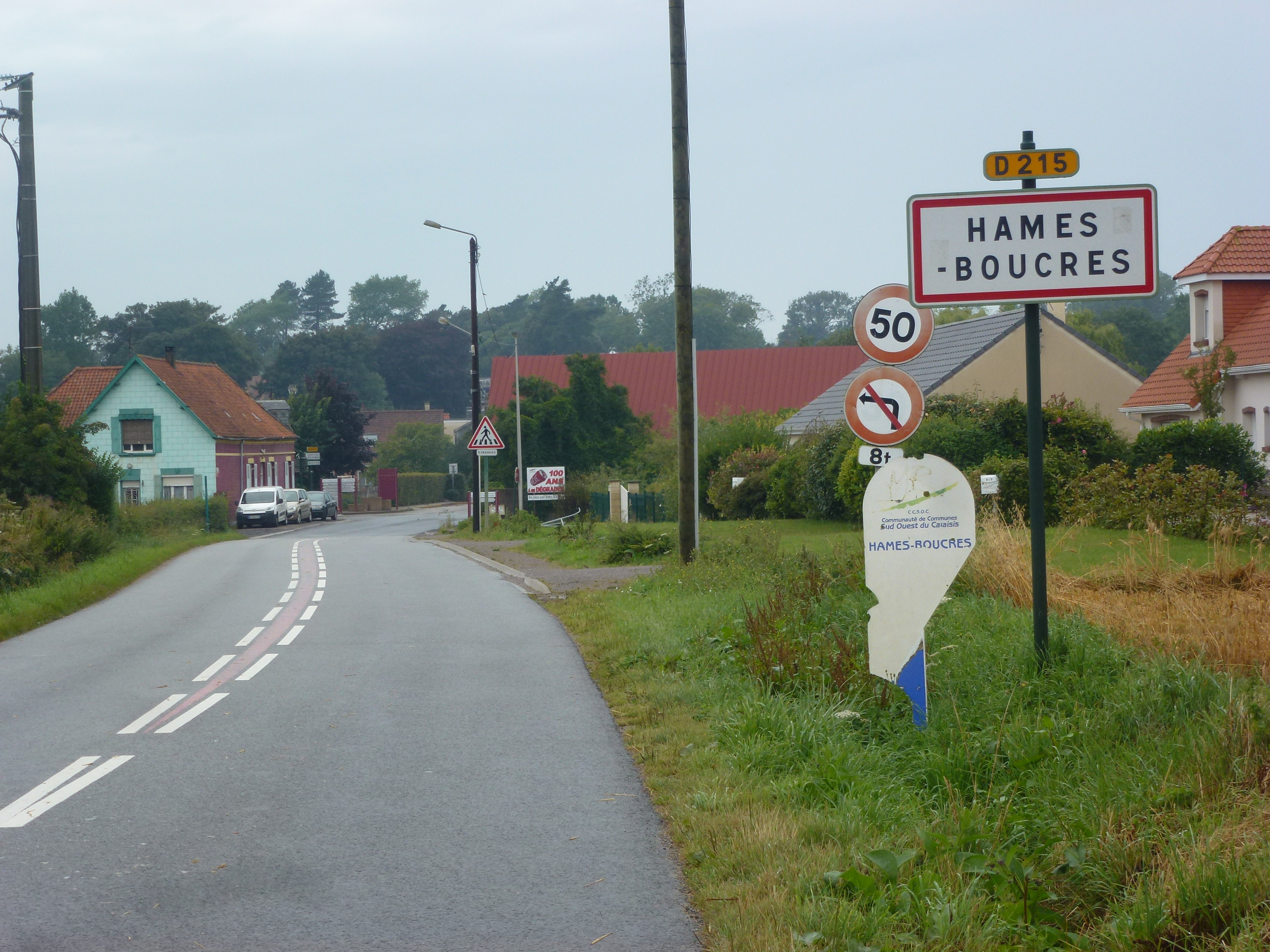 Hames-Boucres (Pas-de-Calais) city limit sign